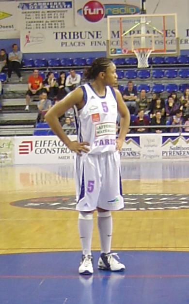 Picture of basketball player Tanisha Wright with her French team of Tarbes GB